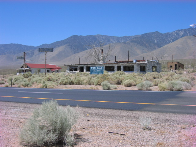 All that's left of Dunmovin, California along US Hwy 395 in Inyo County.